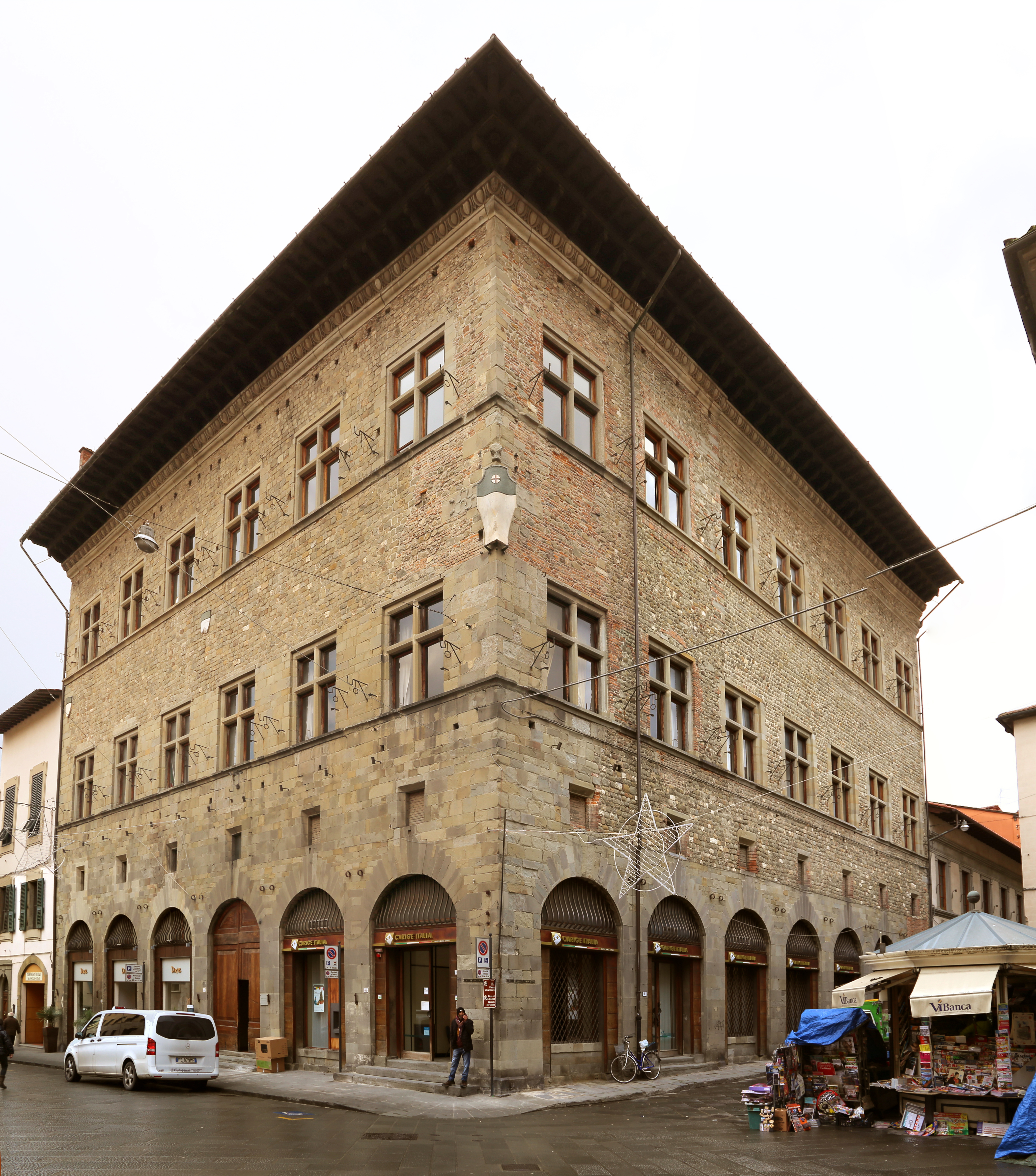 Palaces in Pistoia